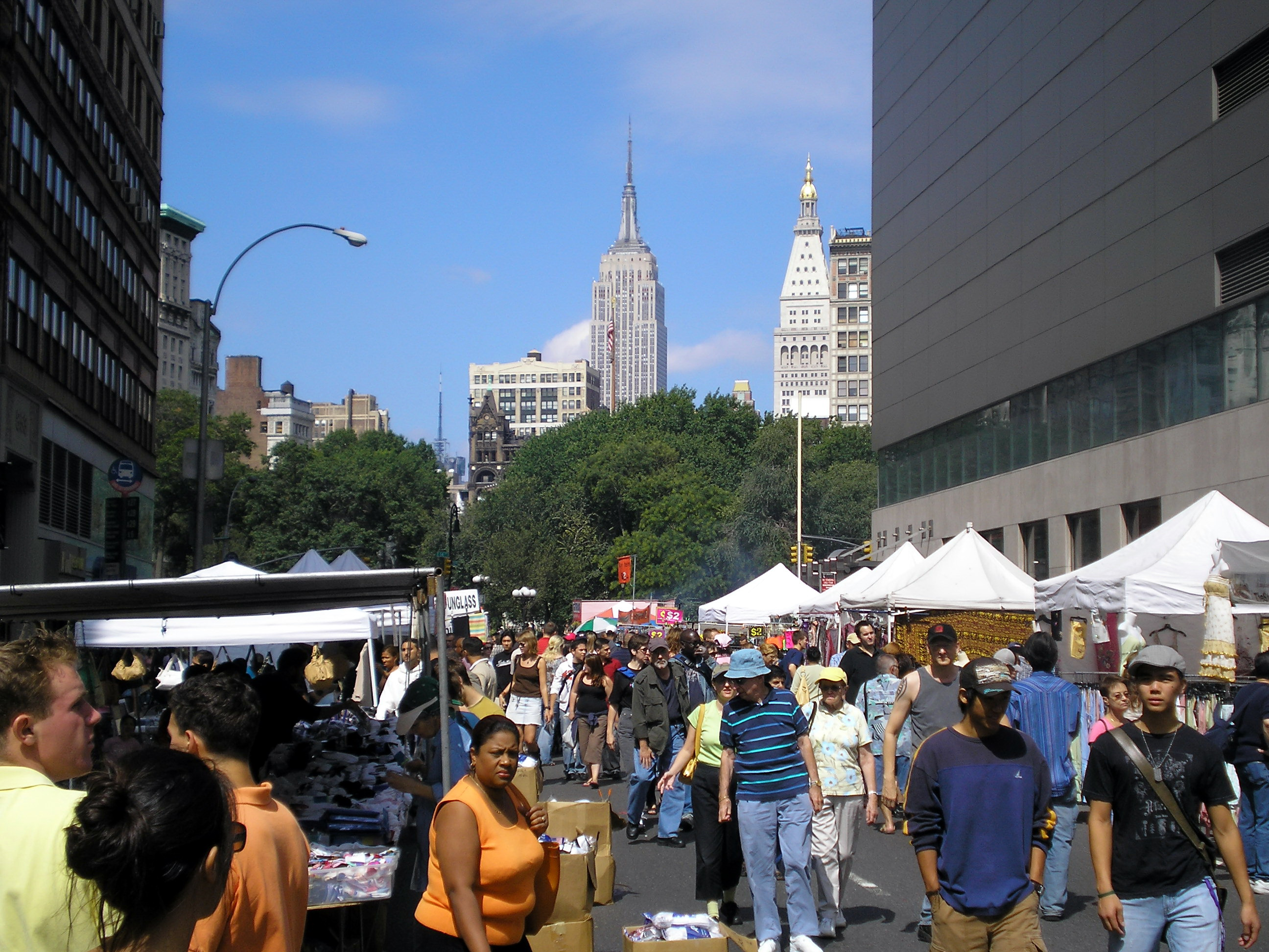 Union Square New York City street fair.